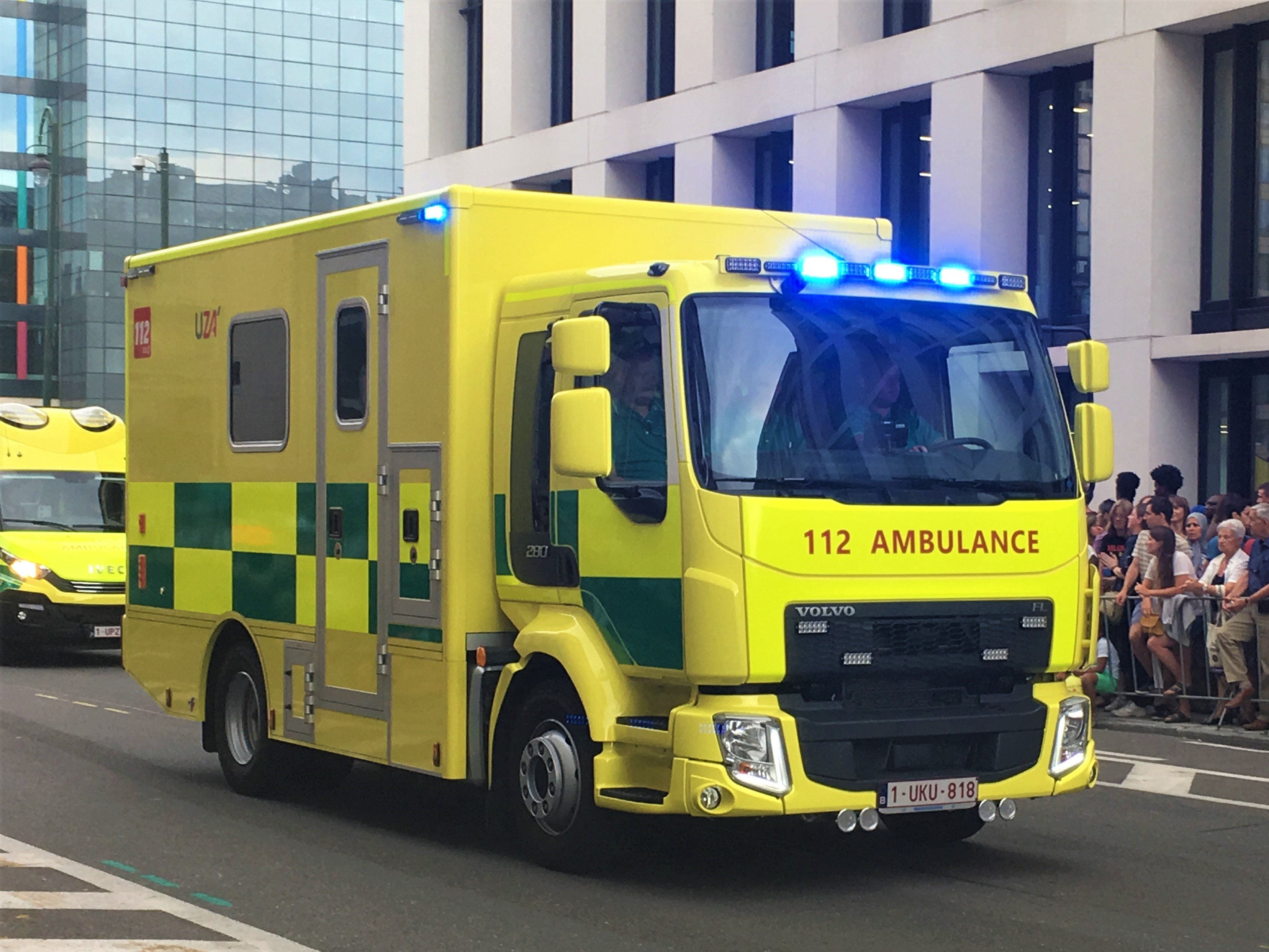 Mobile Intensive Care Unit of the Antwerp University Hospital during the National Parade on July 21, 2018